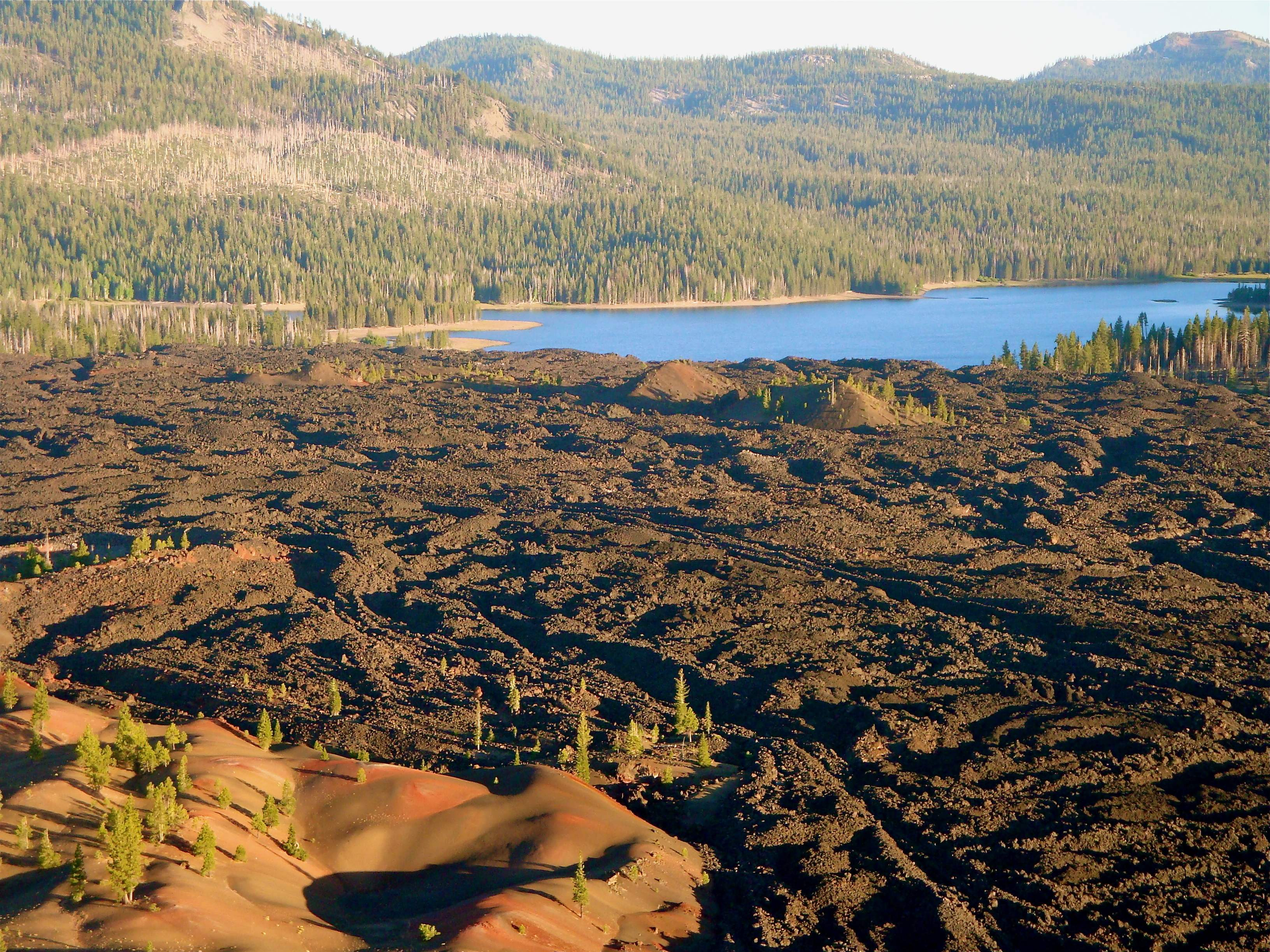 View of Butte Lake, CA with lava flow and painted dunes from top of Cinder Cone.